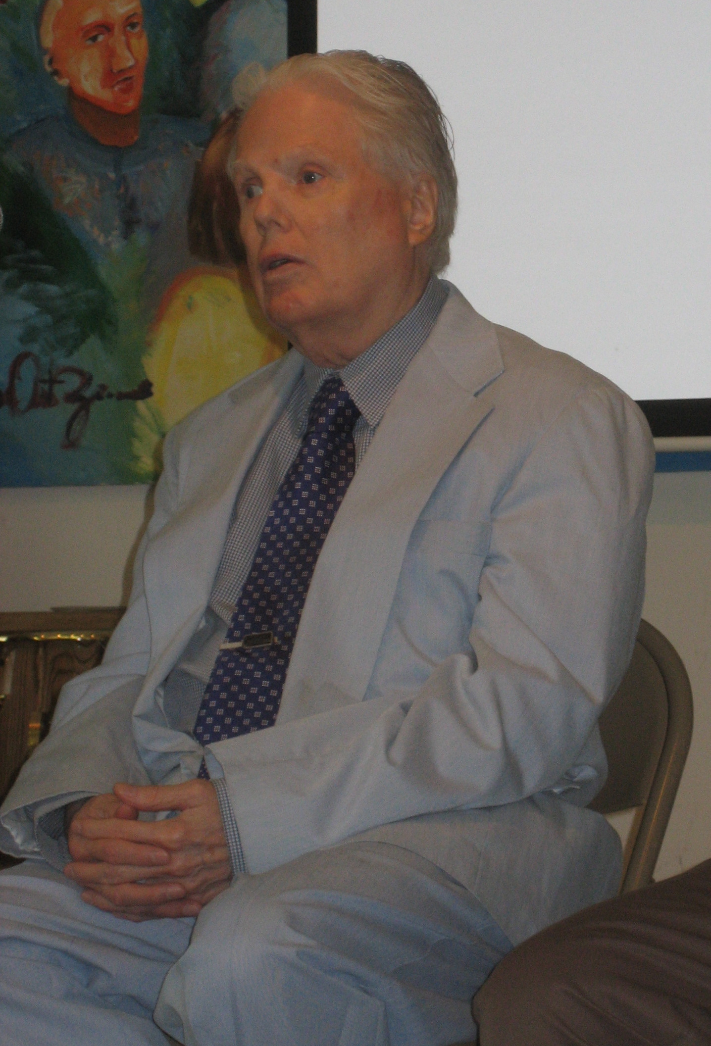 Record producer George H. Buck at Satchmo Summerfest 2006